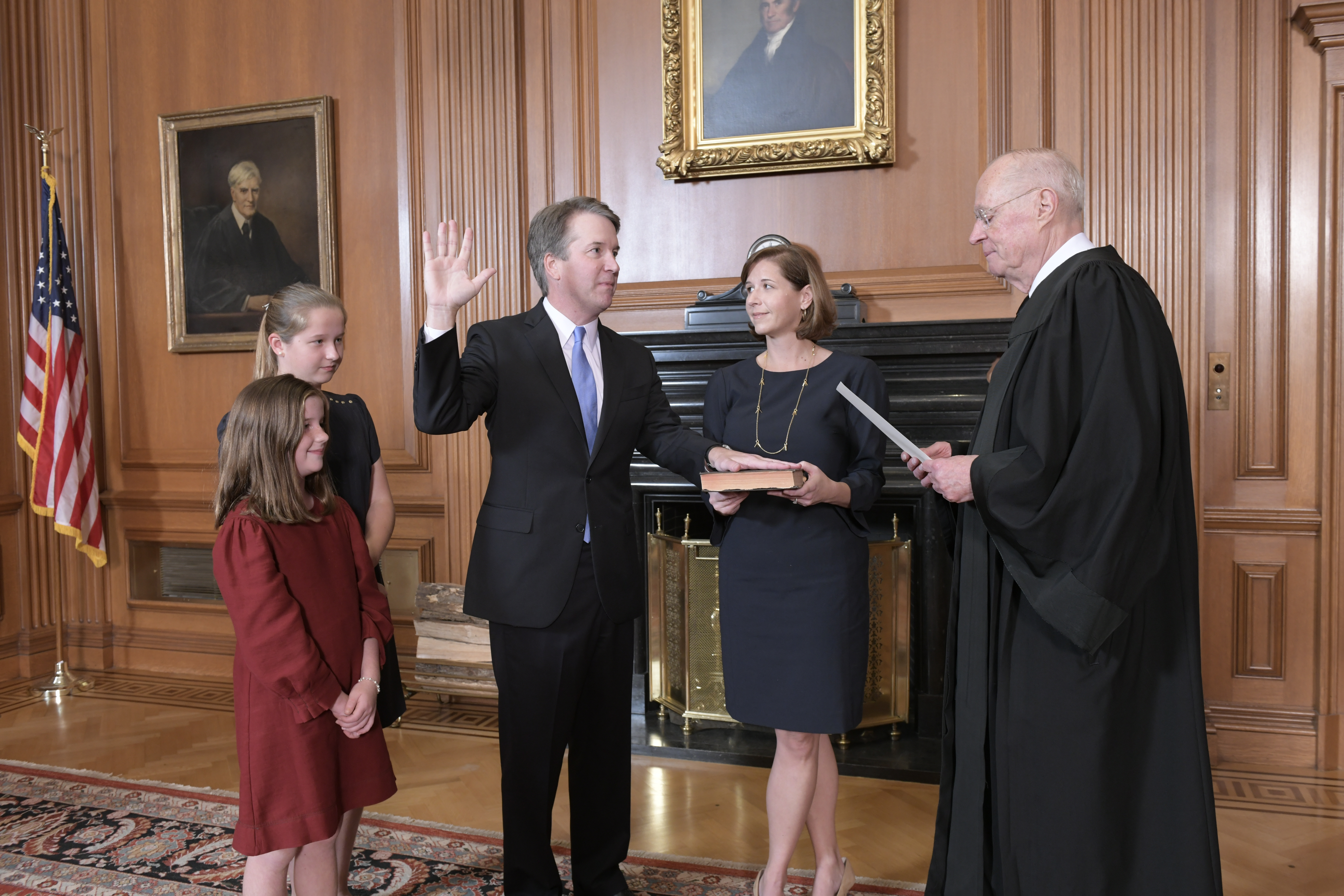 Justice Anthony M. Kennedy, (Retired) administers the Judicial Oath to Judge Brett M. Kavanaugh in the Justices’ Conference Room, Supreme Court Building. Mrs. Ashley Kavanaugh holds the Bible.